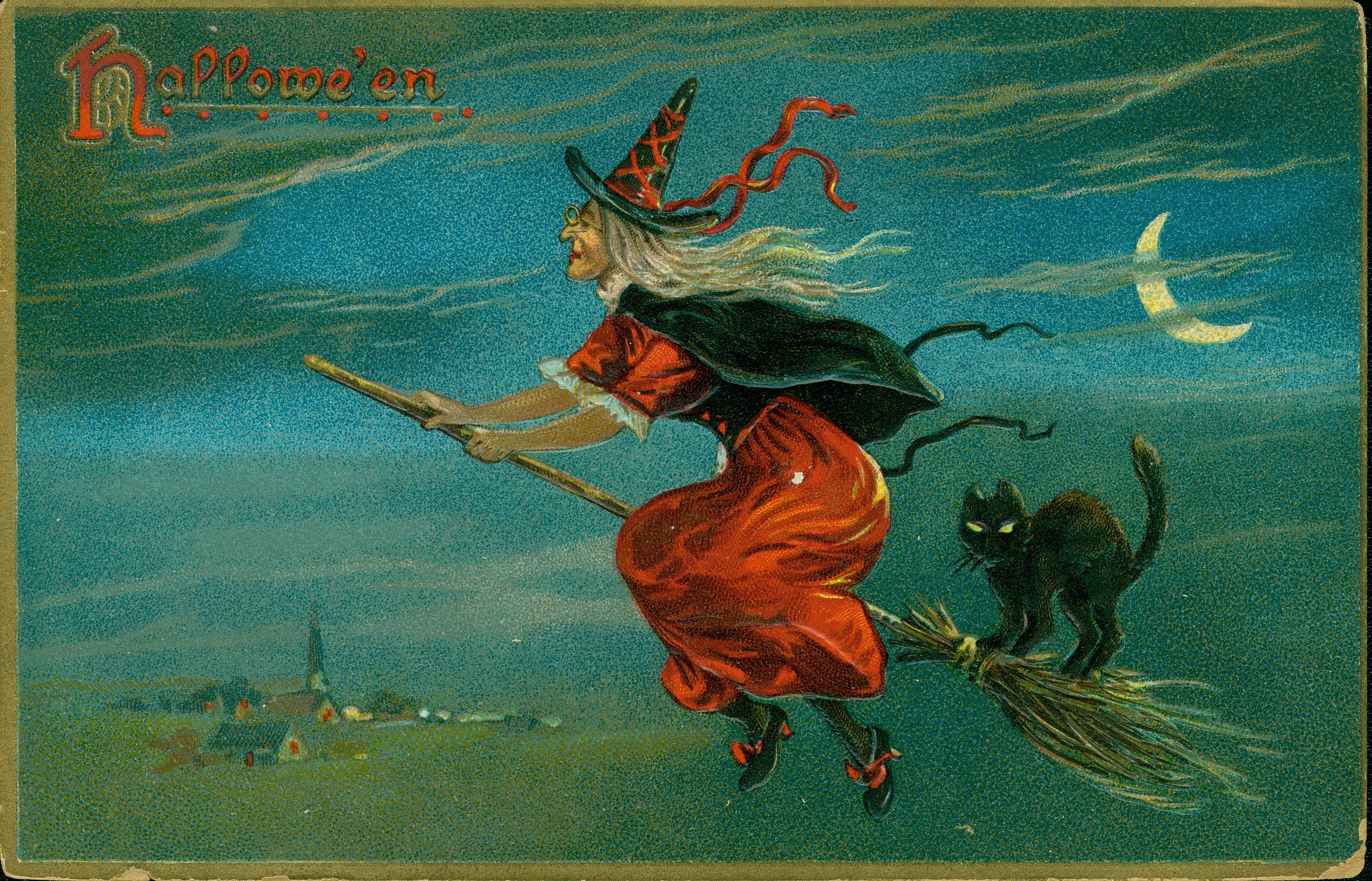 Title: "Hallowe'en." (A Witch riding a broomstick with a black cat).